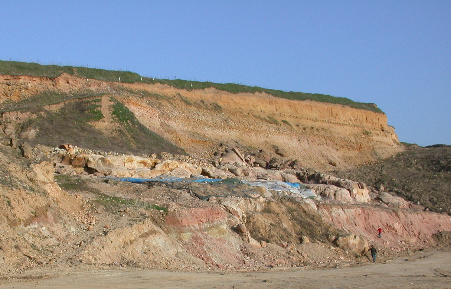 Long shot of fossil sea cliff at Steigerberg hill (view from northwest): Permian volcanic rocks (Kreuznach Rhyolite) with Rupelian (Lower Oligocene, 30 mya) coastal erosion features capped by sands of the Rupelian Alzey Formation. Mainz Basin, Rhineland-Palatinate, Germany[1]